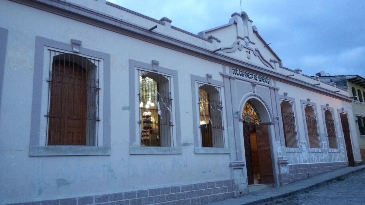 Obrero Palace of Santa Rosa Copán city